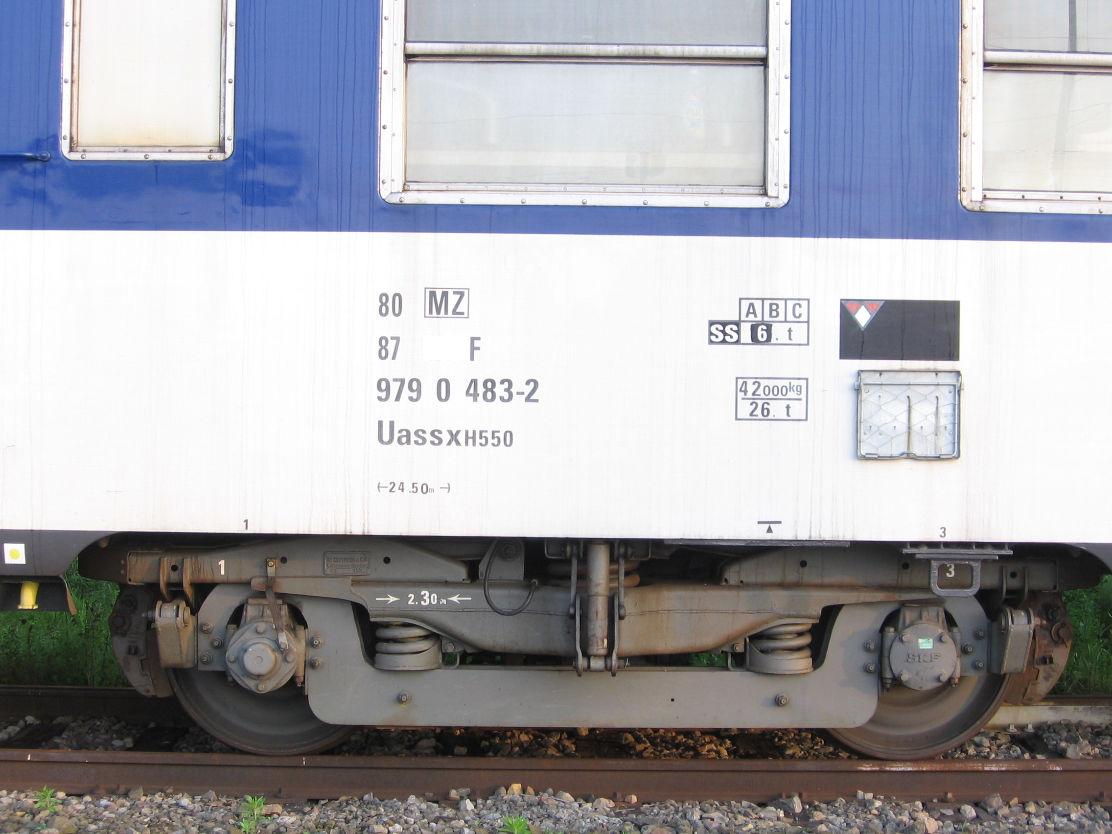 Bogie of former sleeping car SNCF, now service vehicle